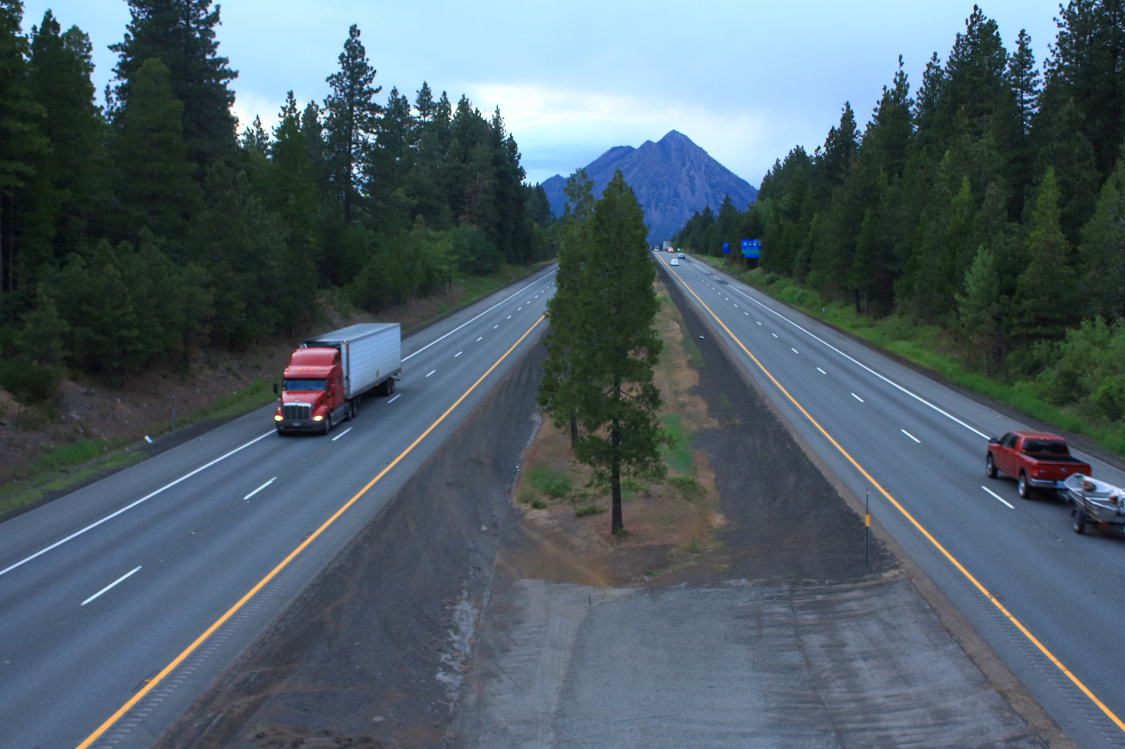 Black Butte Peak seen from Pine Street overpass in the city of Mount Shasta, with the I-5 freeway in the foreground